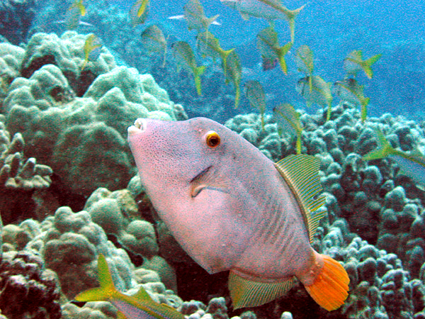 Cantherhines dumerili, Kona, Hawaii. Image taken by Clark Anderson/Aquaimages.